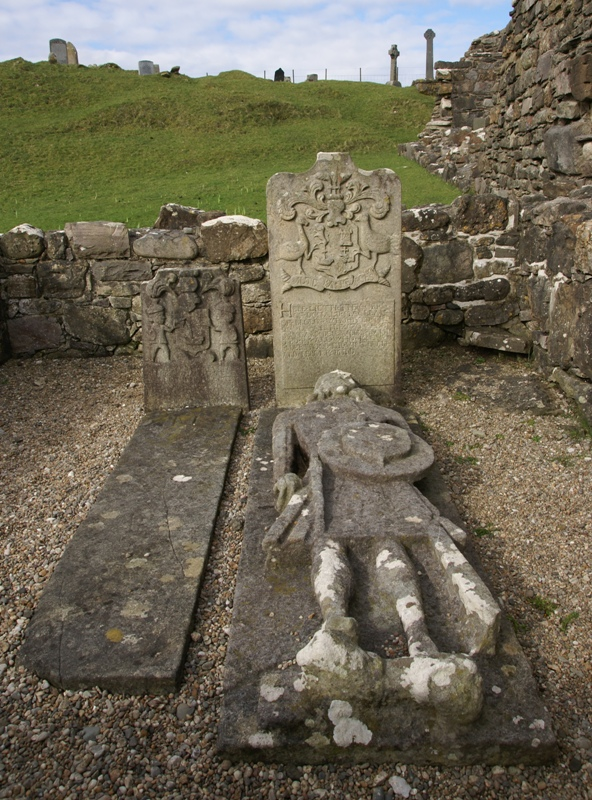 Inchkenneth Chapel, Inch Kenneth, Argyll and Bute, Scotland. Burial enclosure of MacLeans of Brolas: headstones (18th c.) and effigy (17th c.).